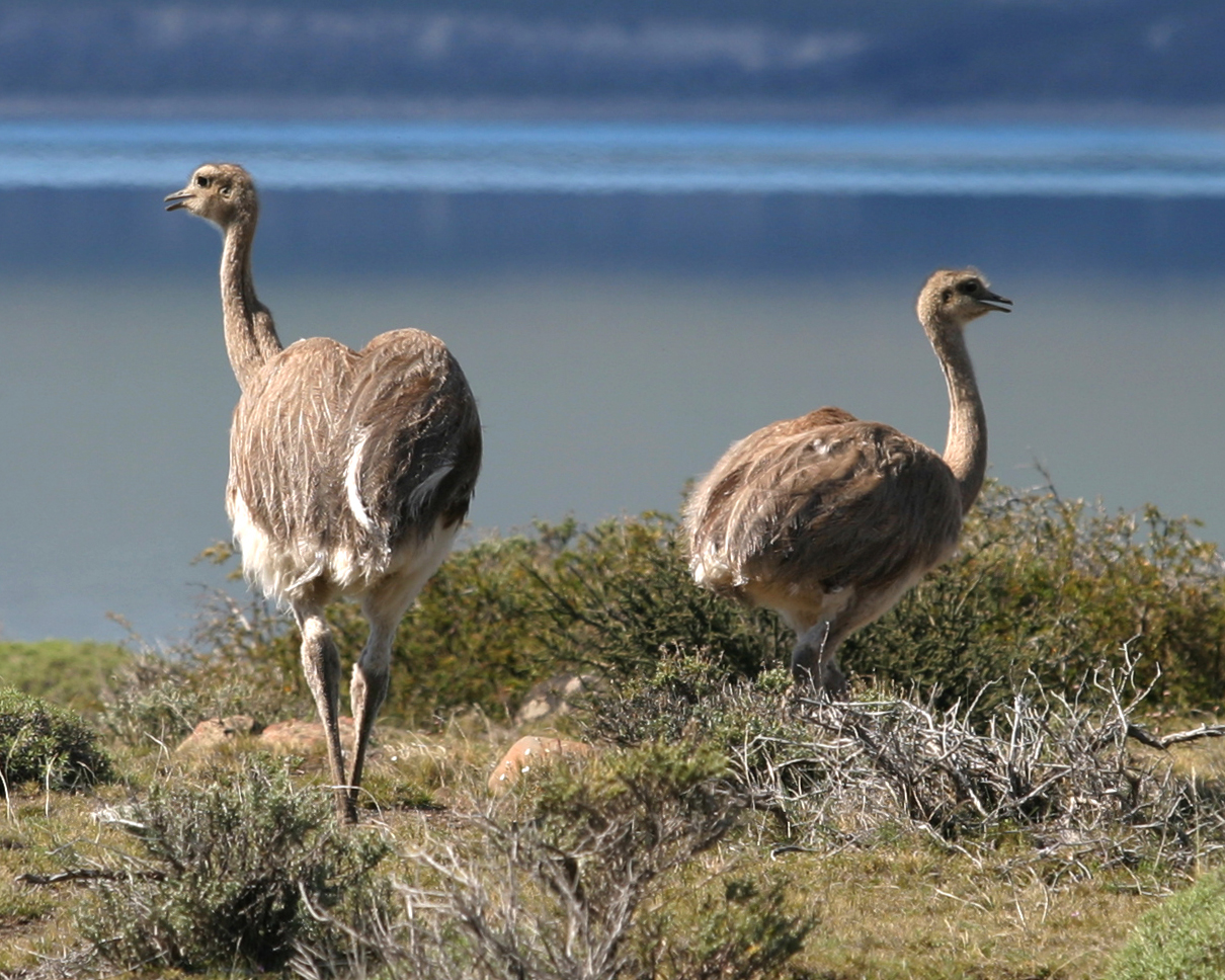 Pterocnemia pennata, Torres Del Paine, Chile